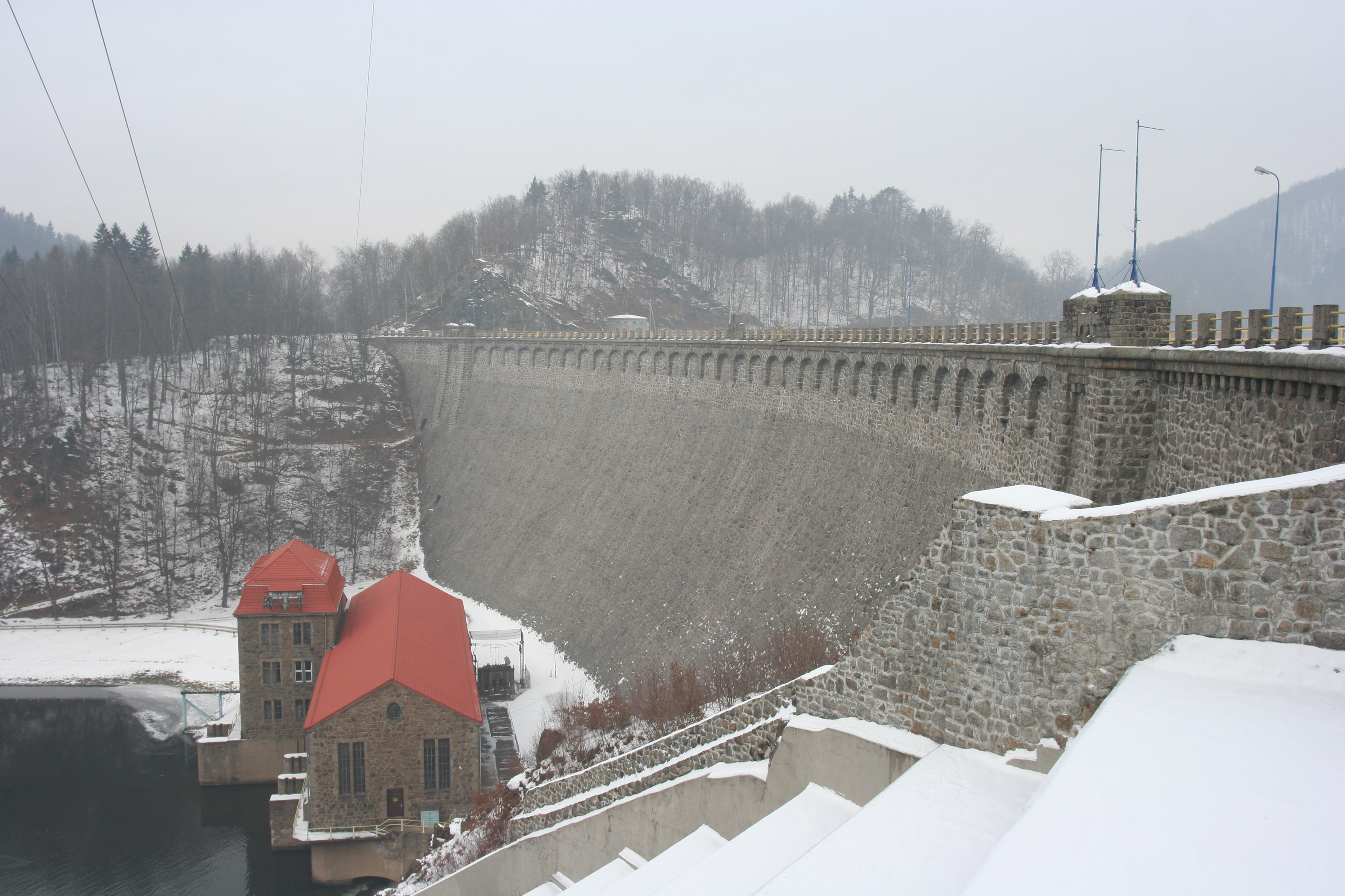 Dam, Pilchowice, Lower Silesia, Poland.